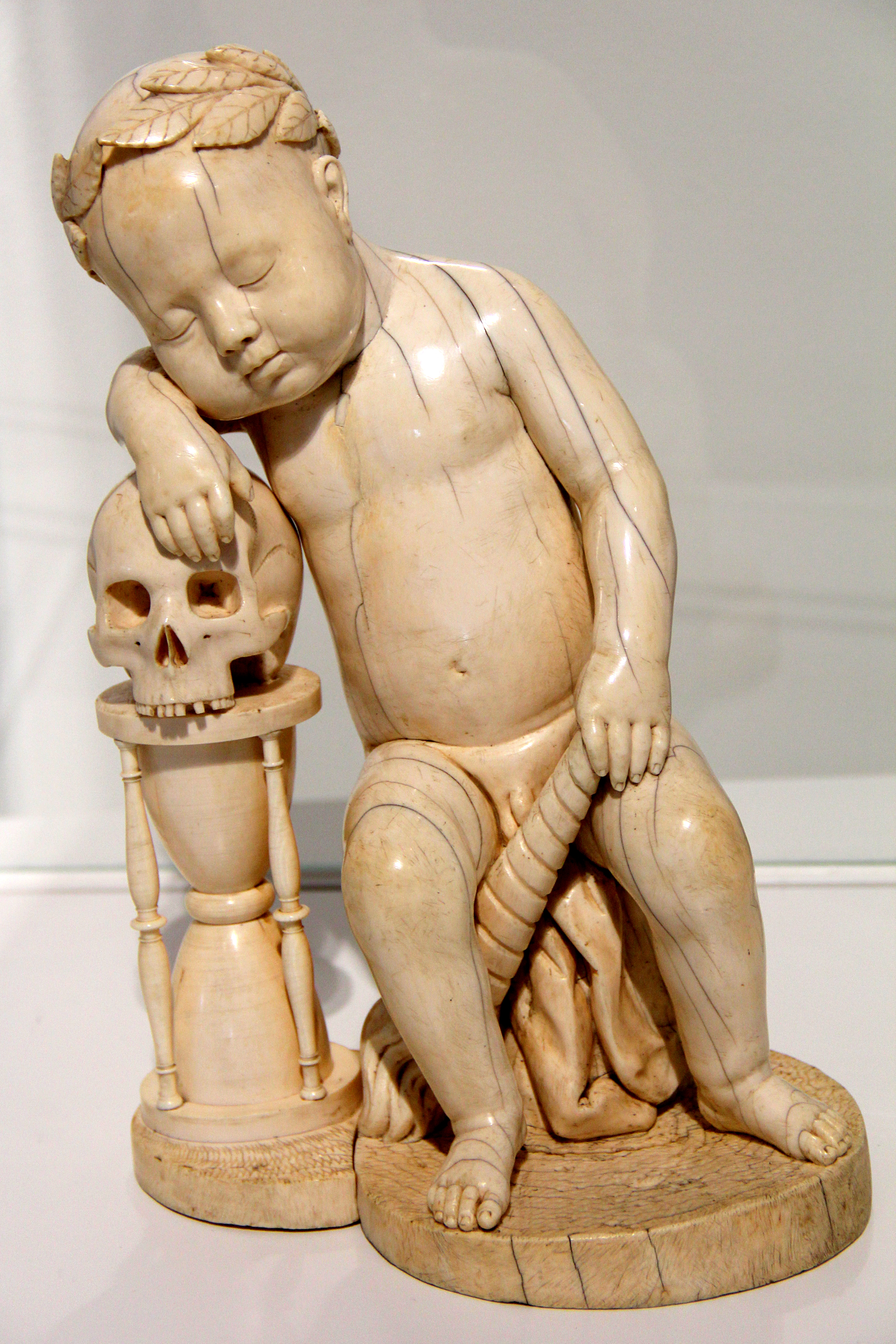 "Enfant endormi" (Sleeping Child), small ivory statue made by the entourage of Leonhard Kern belonging to the Louvre Museum, photographed during the exhibition «Le Temps à l'œuvre» (The Time on work) in the "Pavillon de verre" (Glass pavillon) in the Louvre-Lens.